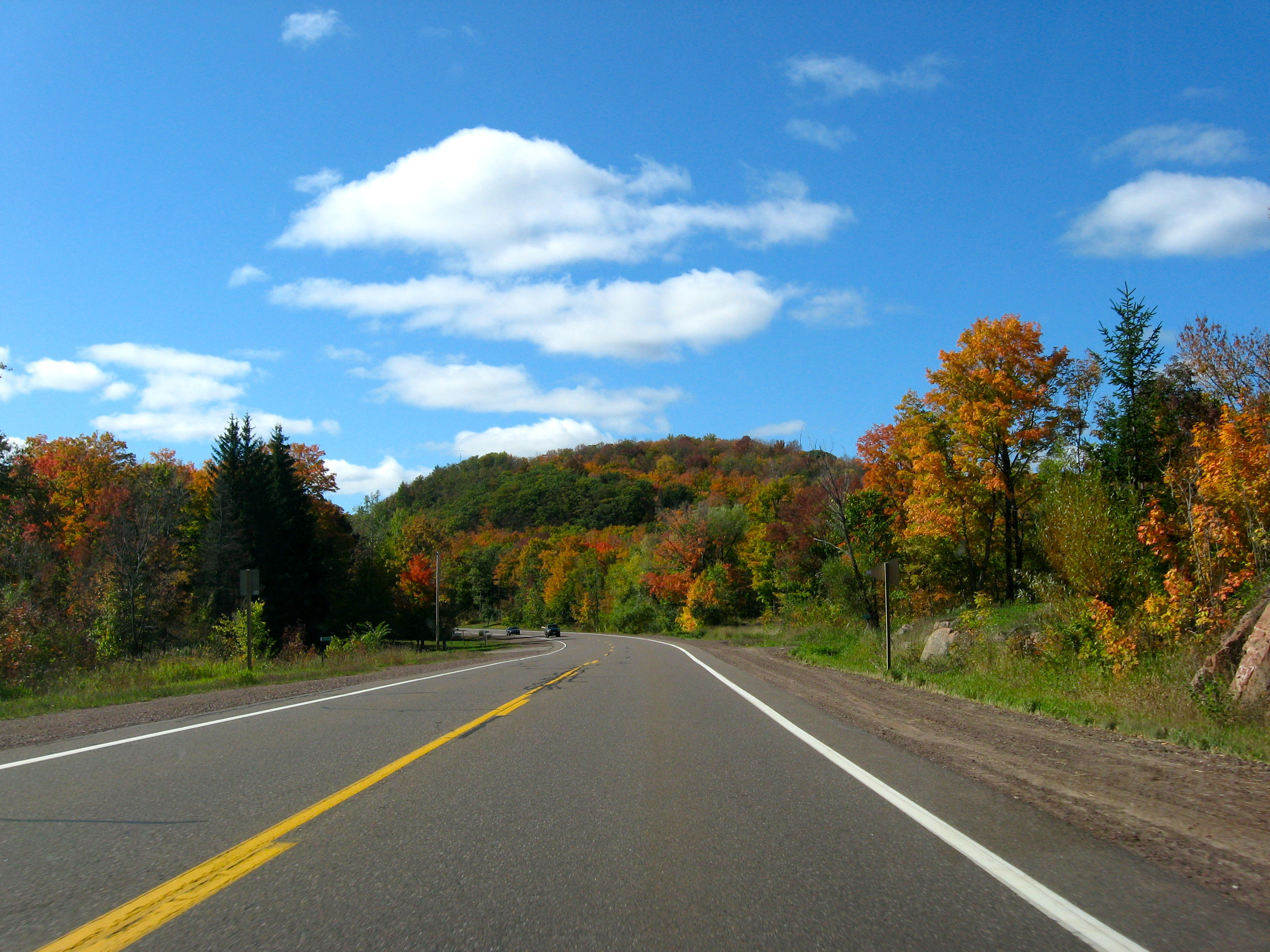 M-28/M-64 Duplex near Lake Gogebic during Autumn 2008